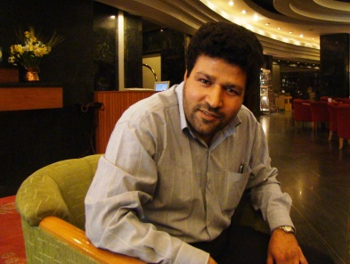 Ehsan Mehrabi, Iranian journalist who was imprisoned